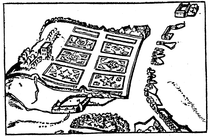 Lundehave at the time of Frederick II of Denmark (1534-1588) - Frederick II's pavilion and garden